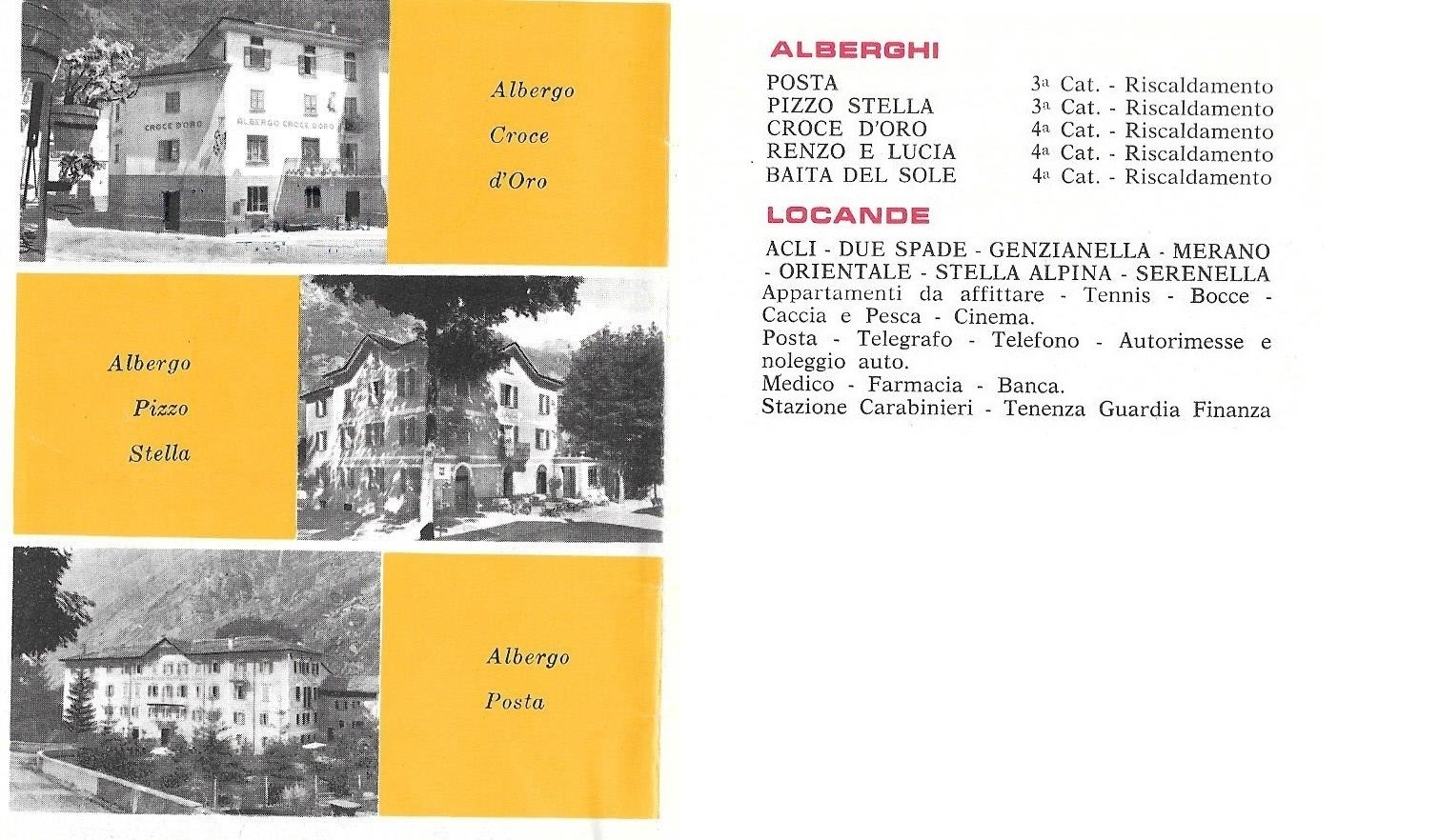 A brochure from Campodolcino in the mid-60s, the era where mass tourism began to develop. Please note the presence of the two 19th century Post and Golden Cross hotels, closed today